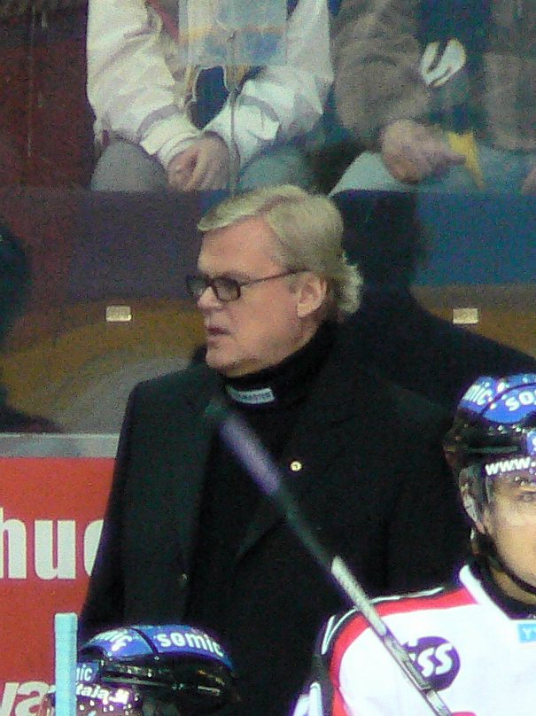 Finnish ice hockey coach Alpo Suhonen behind the bench of Ässät Pori in an SM-liiga game in October, 2008.